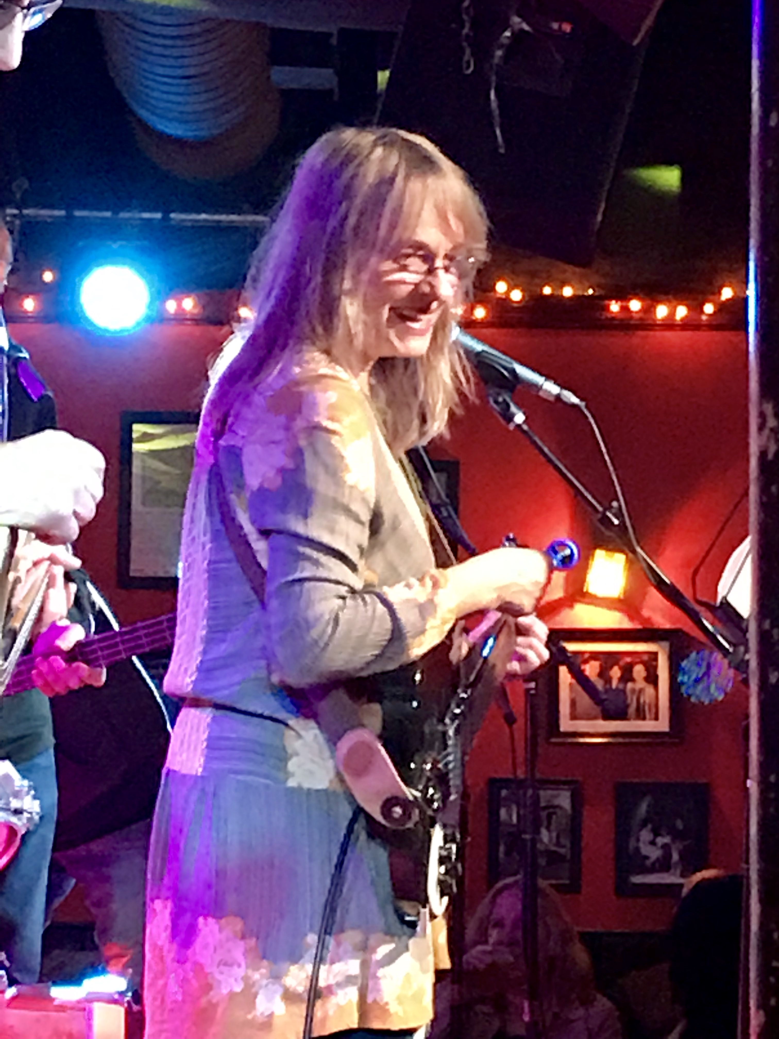 Singer Robin Lane performing at a Chartbusters reunion and CD-release event at The Burren in Somerville MA on 3/2/2019.